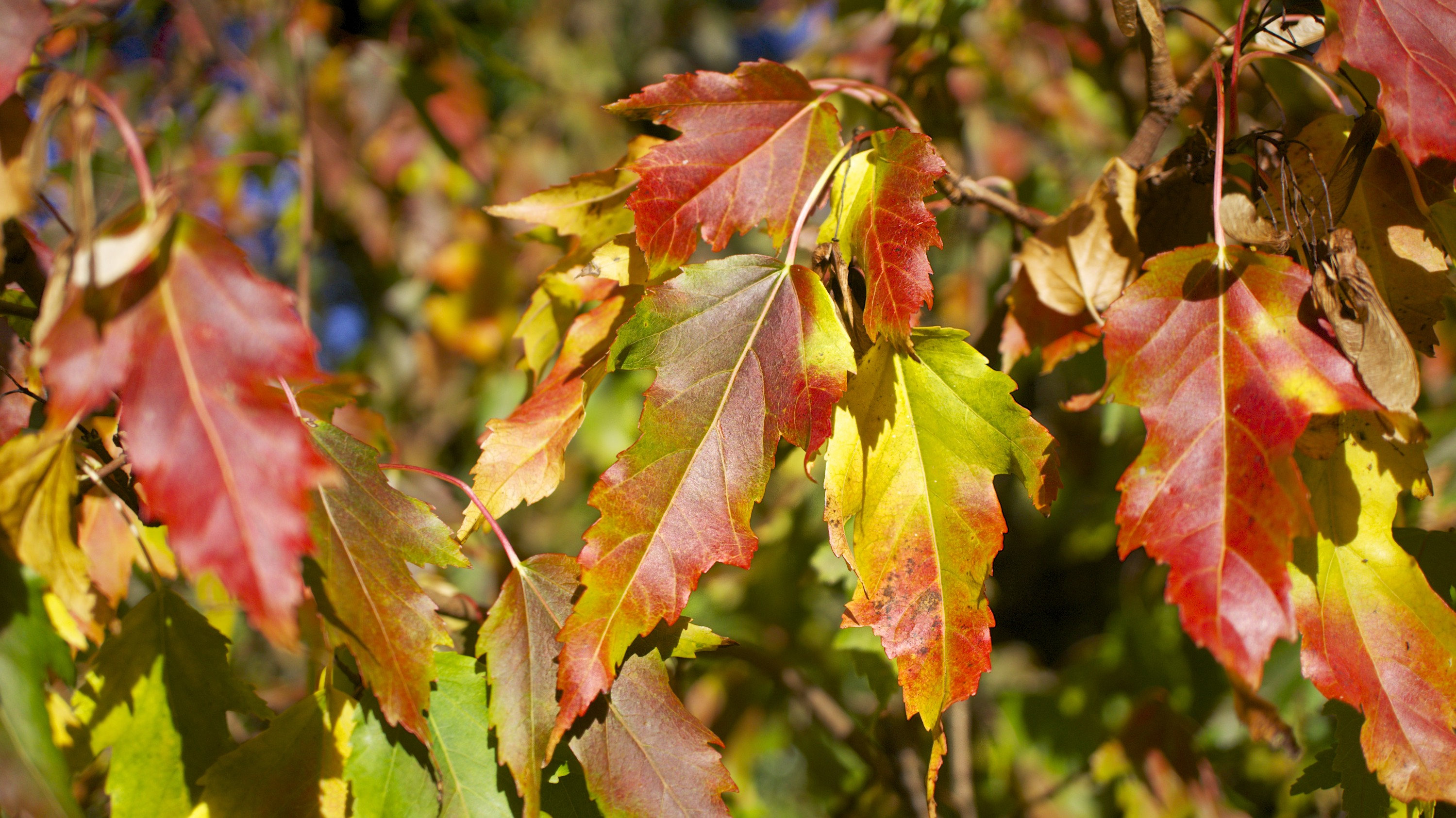 Upton Country Park, Poole, Dorset.